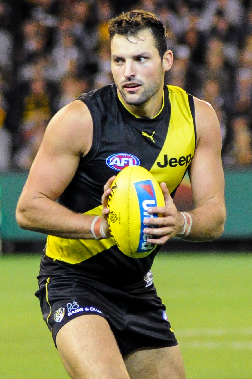 Toby Nankervis during the AFL round two match between Richmond and Collingwood on 30 March 2017 at the Melbourne Cricket Ground in Melbourne, Victoria.